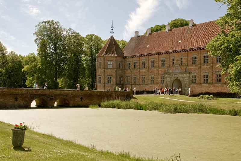 Voergård castle, situated i the northern part of Jutland, Denmark